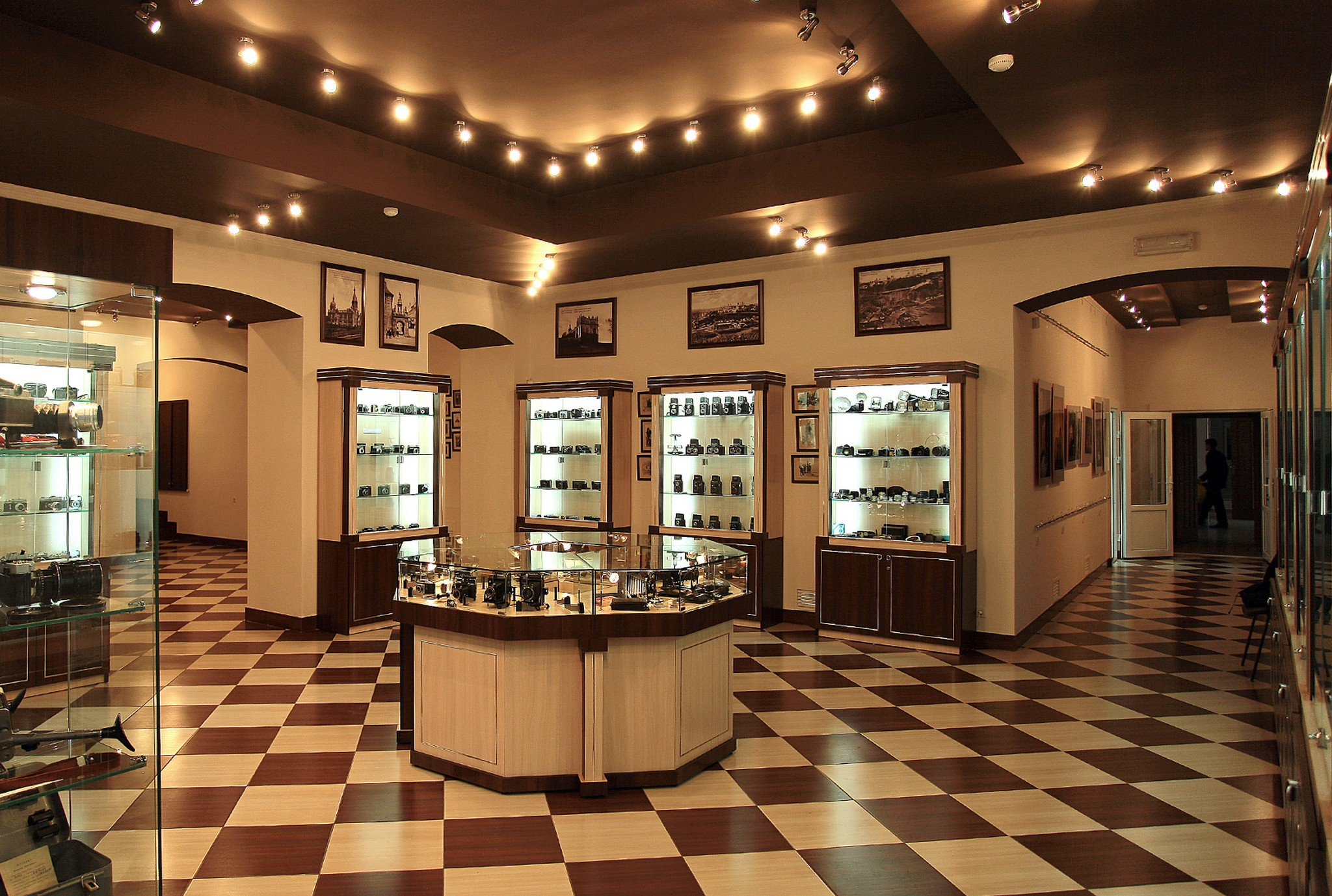 Експозиційний зал музею